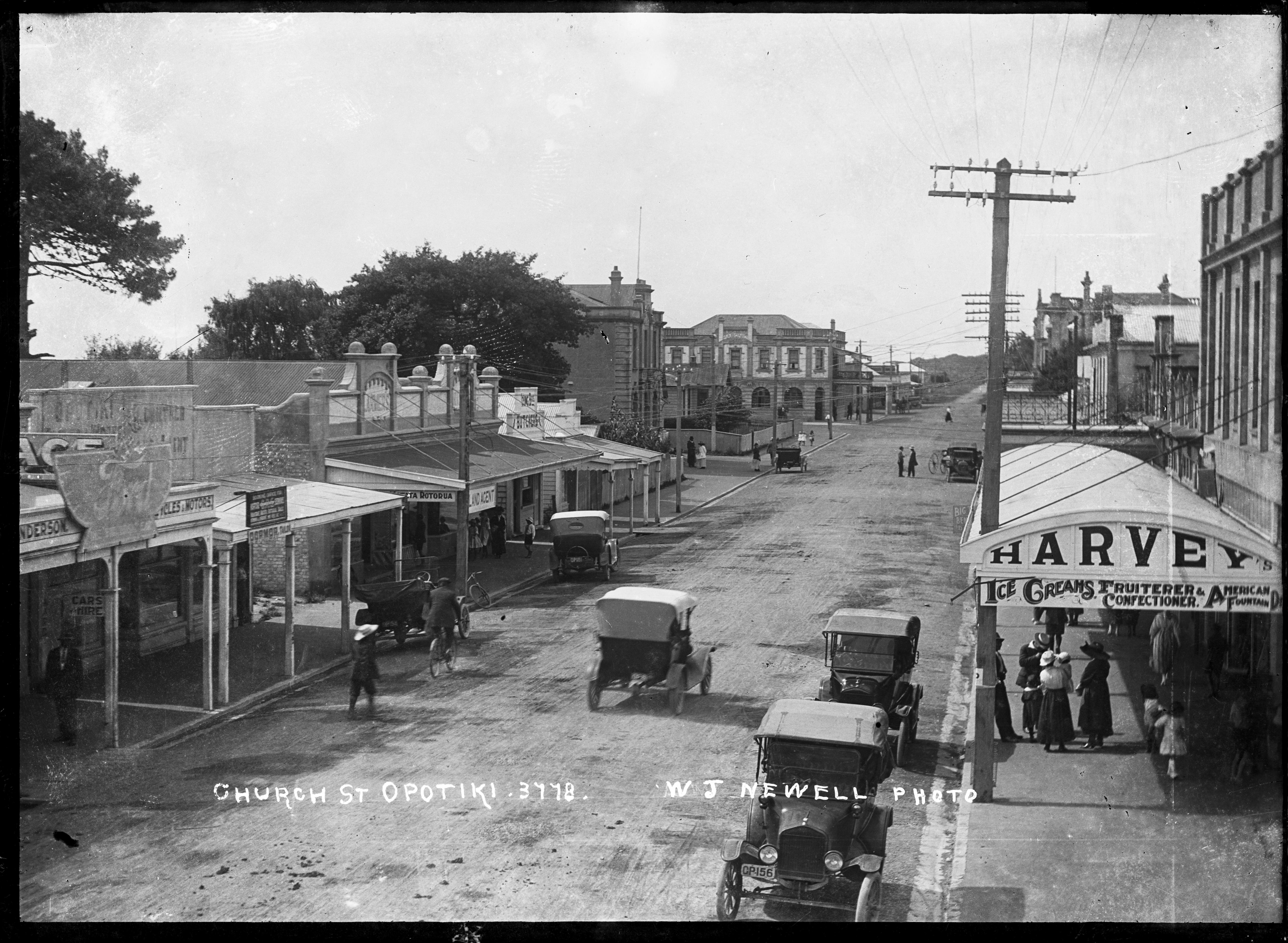 View looking down Church Street towards Main Street (Elliot Street). In the foreground on the right is Harvey's (fruiter & confectioner). On the lefthandside of the street are various shops including a car hire firm, land agent and butcher. The Post Office building is further down on the left. The Masonic Hotel (with brick facade) can be seen in the far distance on the corner of Church Street and Main Street. Several cars are parked in the street.Photograph taken by W J Newell ca 1920s. Inscriptions: Inscribed - Photographer's title on negative -bottom left: Church St. Opotiki. 3778.bottom right: W J Newell photo. Quantity: 1 b&w original negative(s). Physical Description: Dry plate glass negative 4.5 x 6.5 inches Newell, W J, fl 1920. Church Street, Opotiki - Photographed by W J Newell. Price, William Archer, 1866-1948 :Collection of post card negatives. Ref: 1/2-001311-G. Alexander Turnbull Library, Wellington, New Zealand.